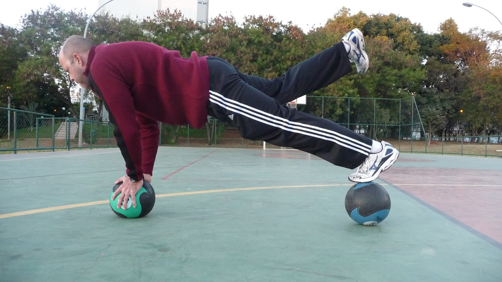 Medicine ball plank